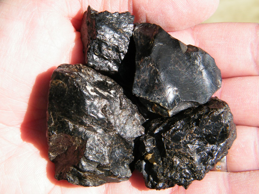 Ozokerite (Dimensions: Glossy specimen upper right is 1.5" wide.) Locality: Colton, Utah County, Utah, USA original description: Mineral wax from the only commercial source in the world. Glossy, waxy, very light in weight. Four specimens.